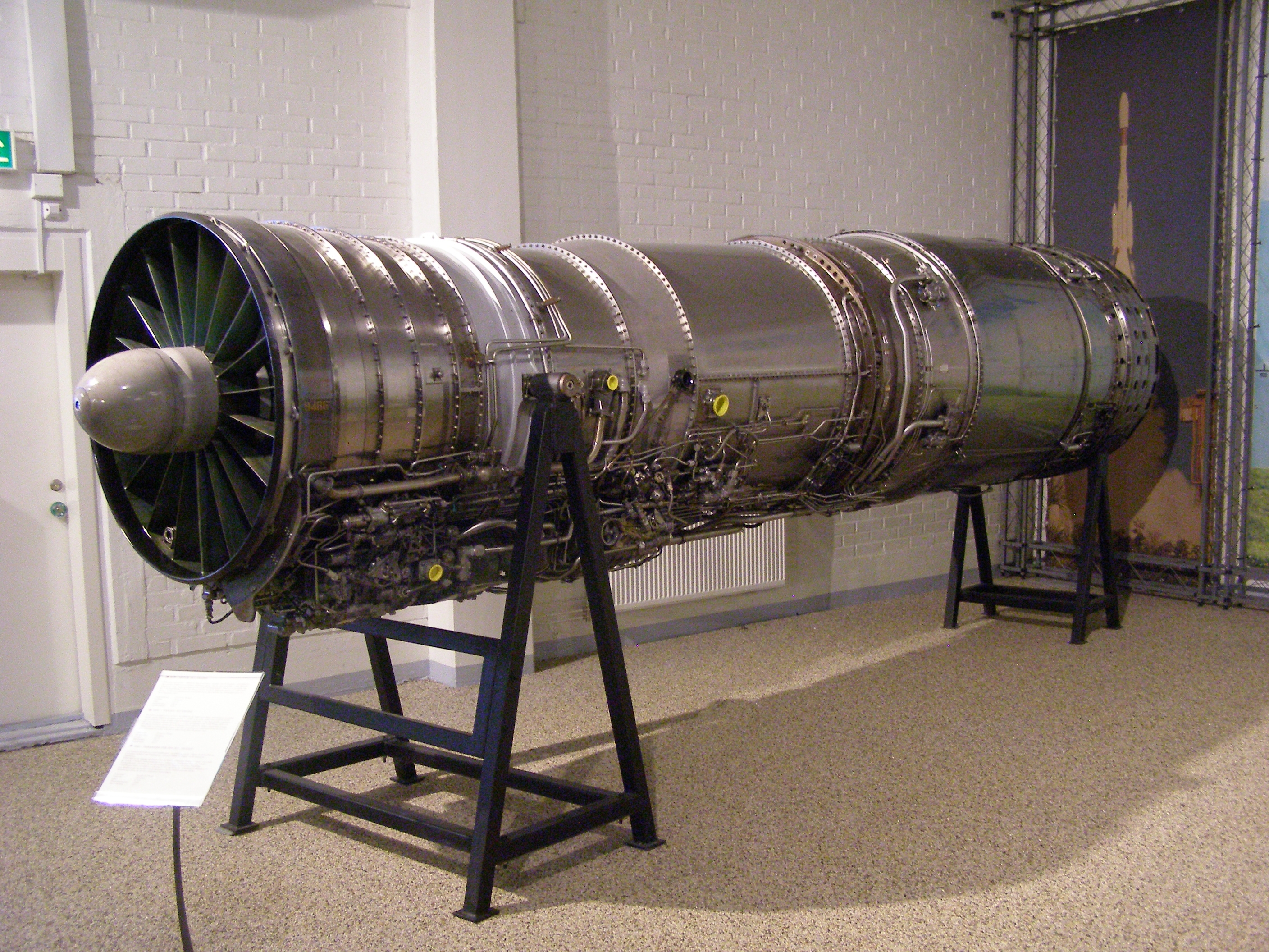 Gothenburg - Volvo Museum - RM8 jet engine